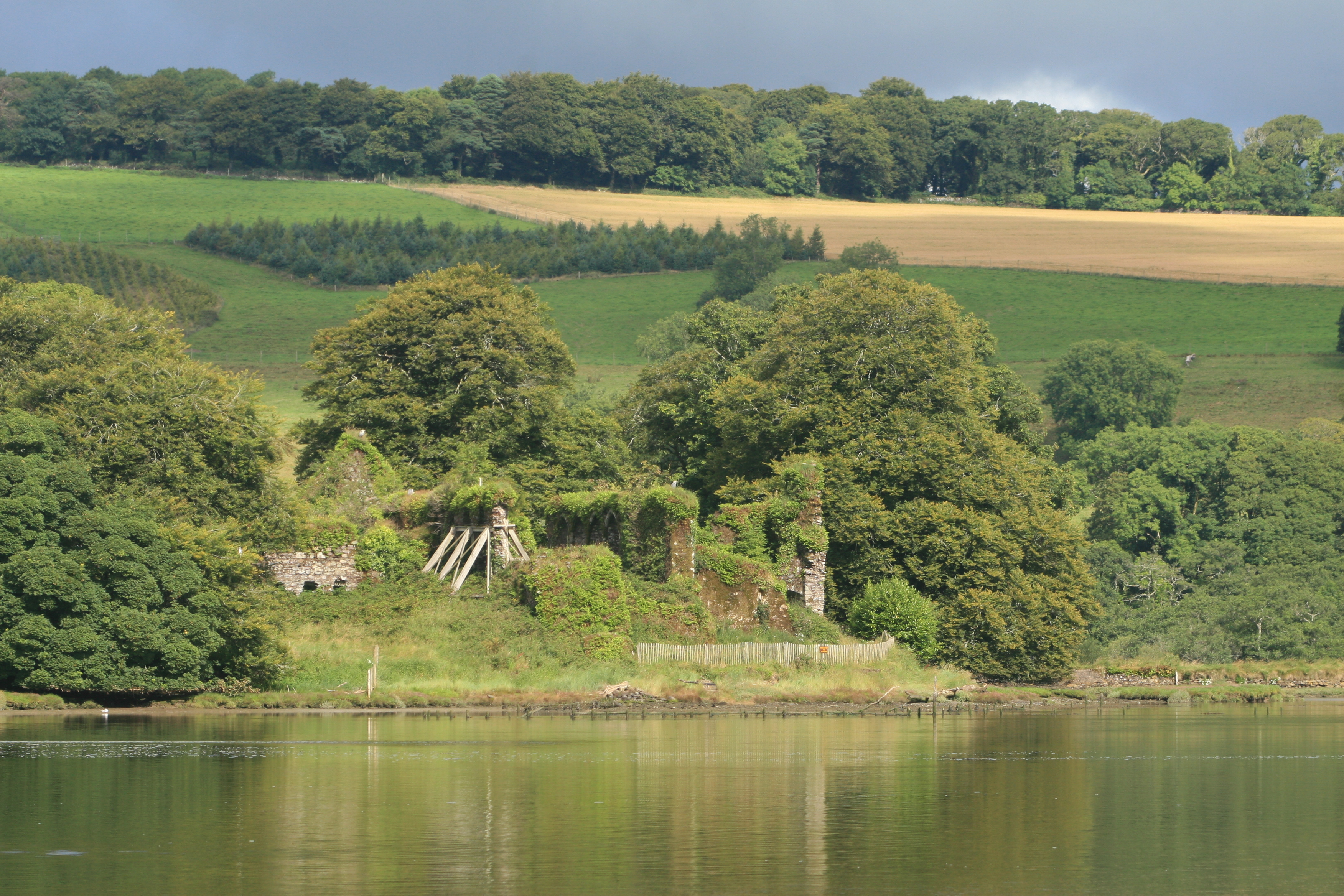 Molana Priory, County Waterford, Ireland 13th-century ruins of Molana Priory as seen from the opposite bank of the River Blackwater